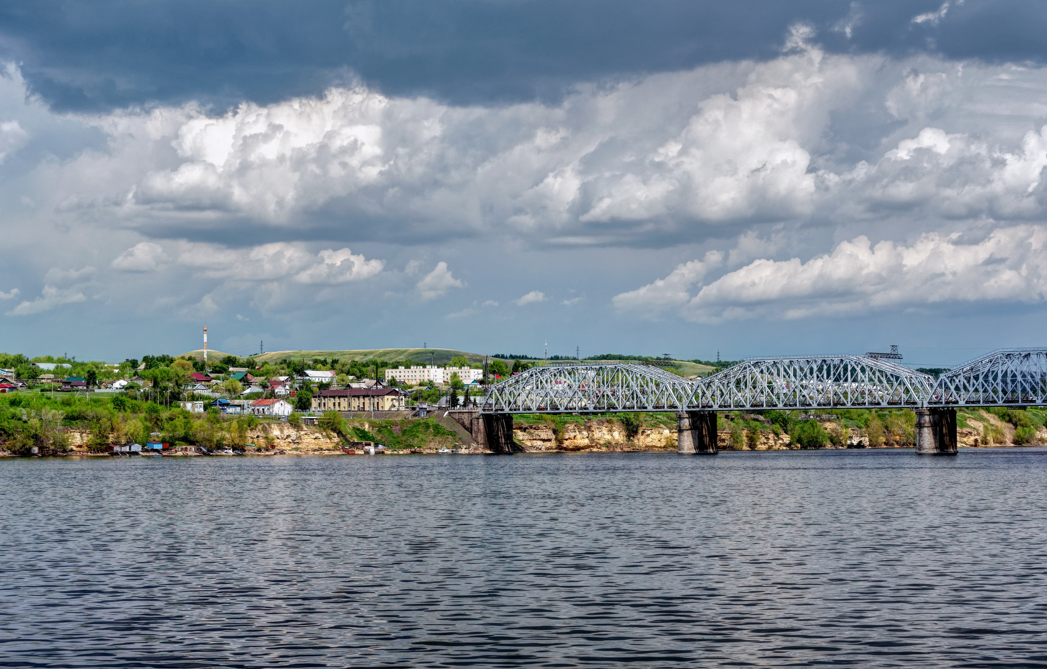 Volga River. Oktyabrsk. Syzran Bridge